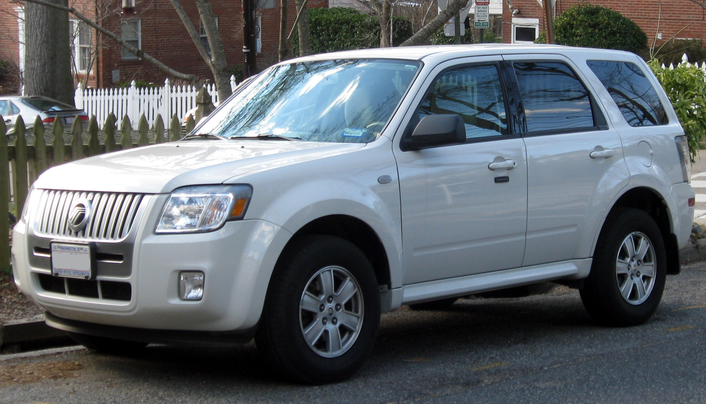 2008-2011 Mercury Mariner photographed in Washington, D.C., USA.